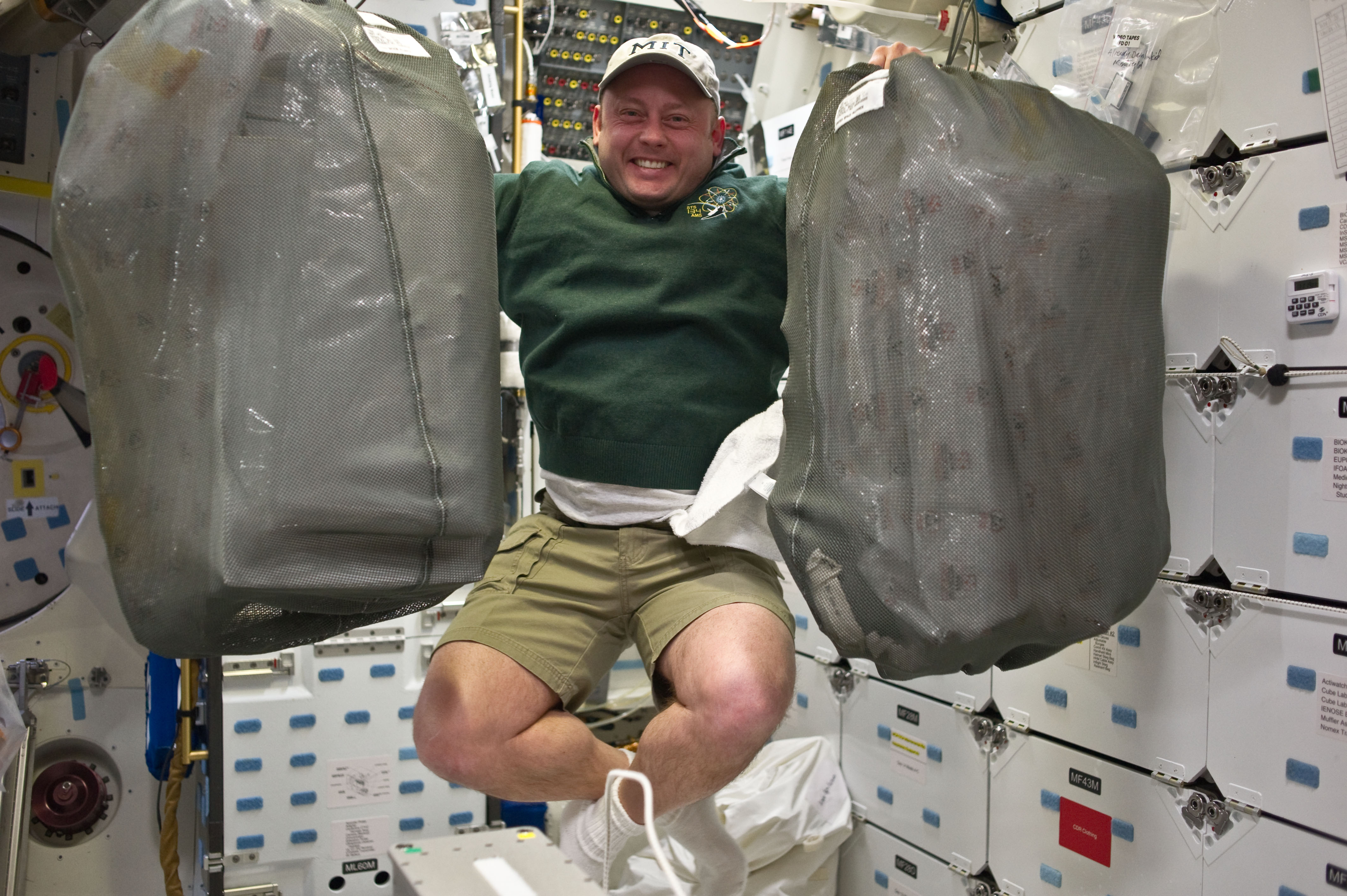 Veteran NASA astronaut Michael Fincke, STS-134 mission specialist, appears delighted that, because of the weightlessness of space, he can renew doing chores which he can't do on Earth, like lifting heavy bags and floating freely at the same time. Fincke and five other astronauts share Endeavour with a large quantity of supplies and equipment as they head toward a date with the International Space Station (ISS). Endeavour was scheduled to link with ISS in less than 24 hours from the time this picture was recorded.